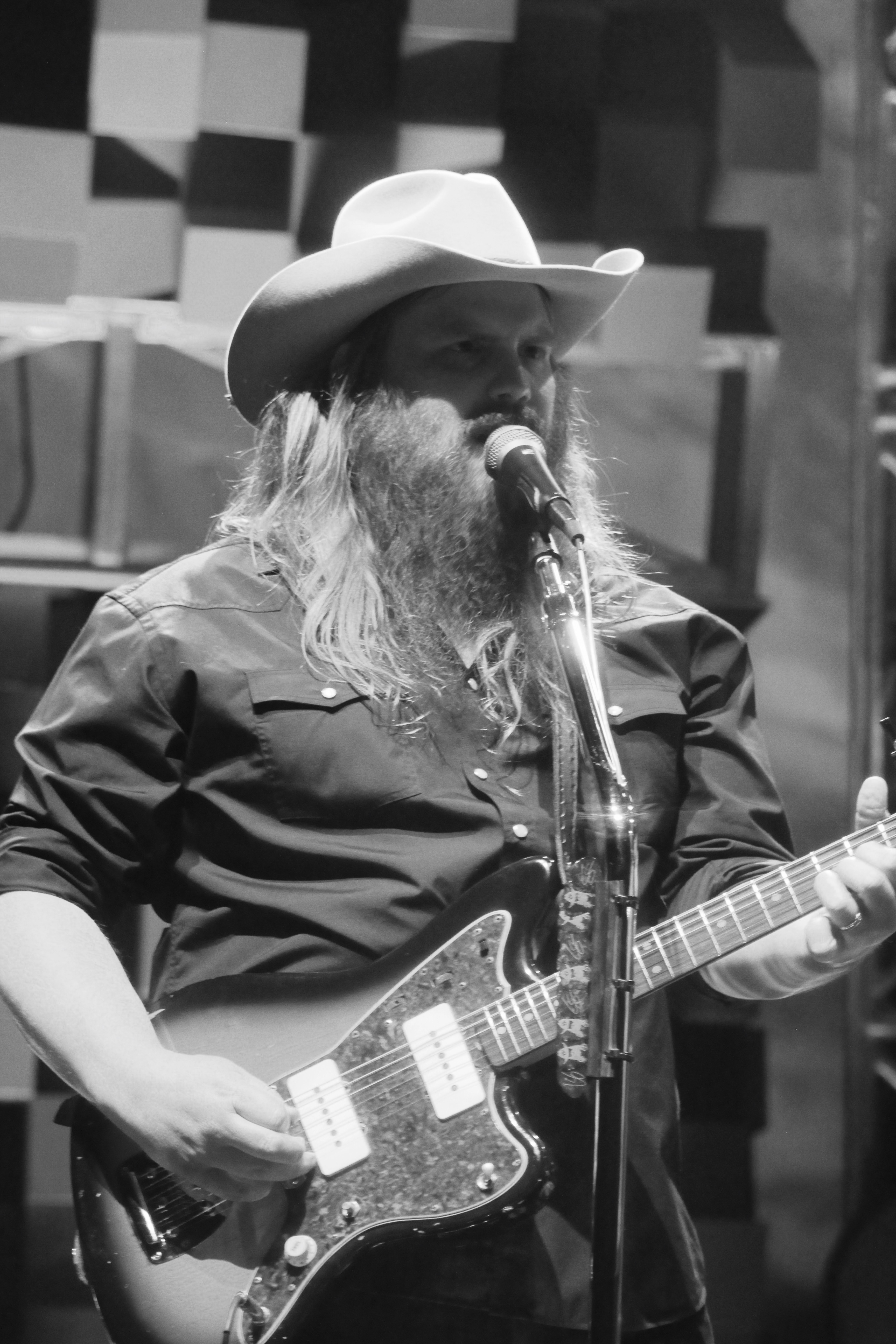 American singer-songwriter and guitarist Chris Stapleton at Red Rocks Amphitheatre on May 23, 2017, in Morrison, Colorado, United States